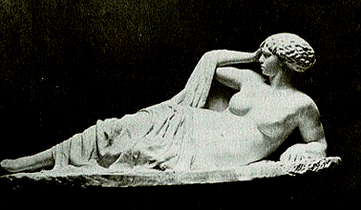 Anne Whitney, Africa, circa 1864